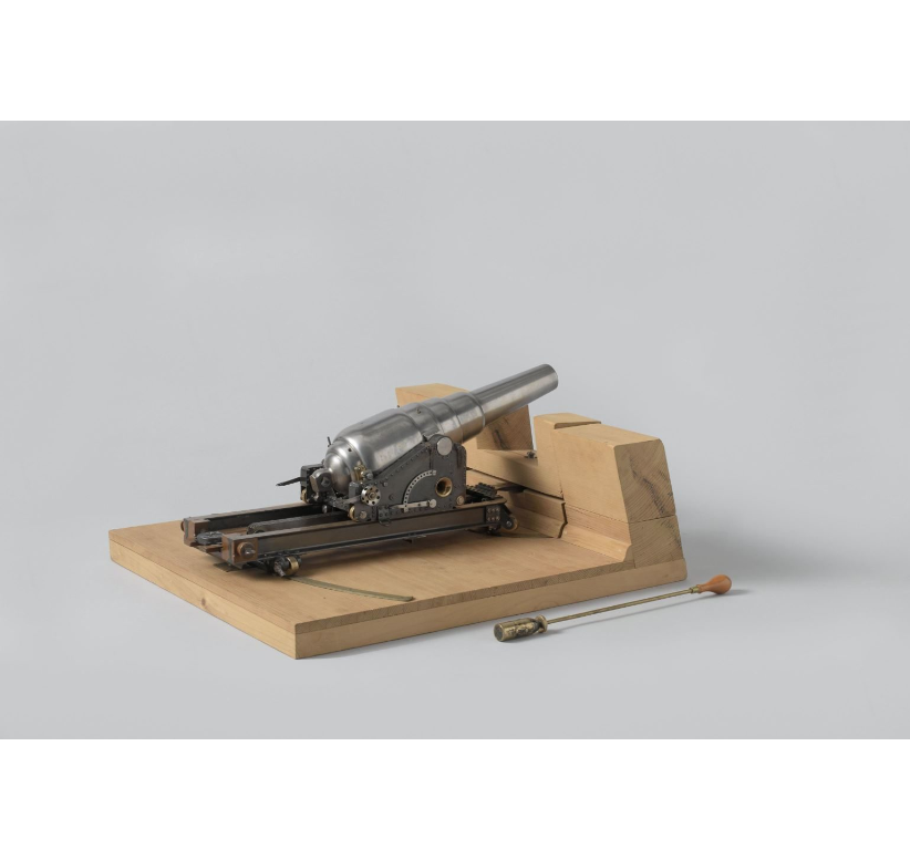 Model of a Dutch 18 cm RML Armstrong gun. The gun was introduced in 1868. The particular model is about how it was placed on board the Corvette Zilveren Kruis.